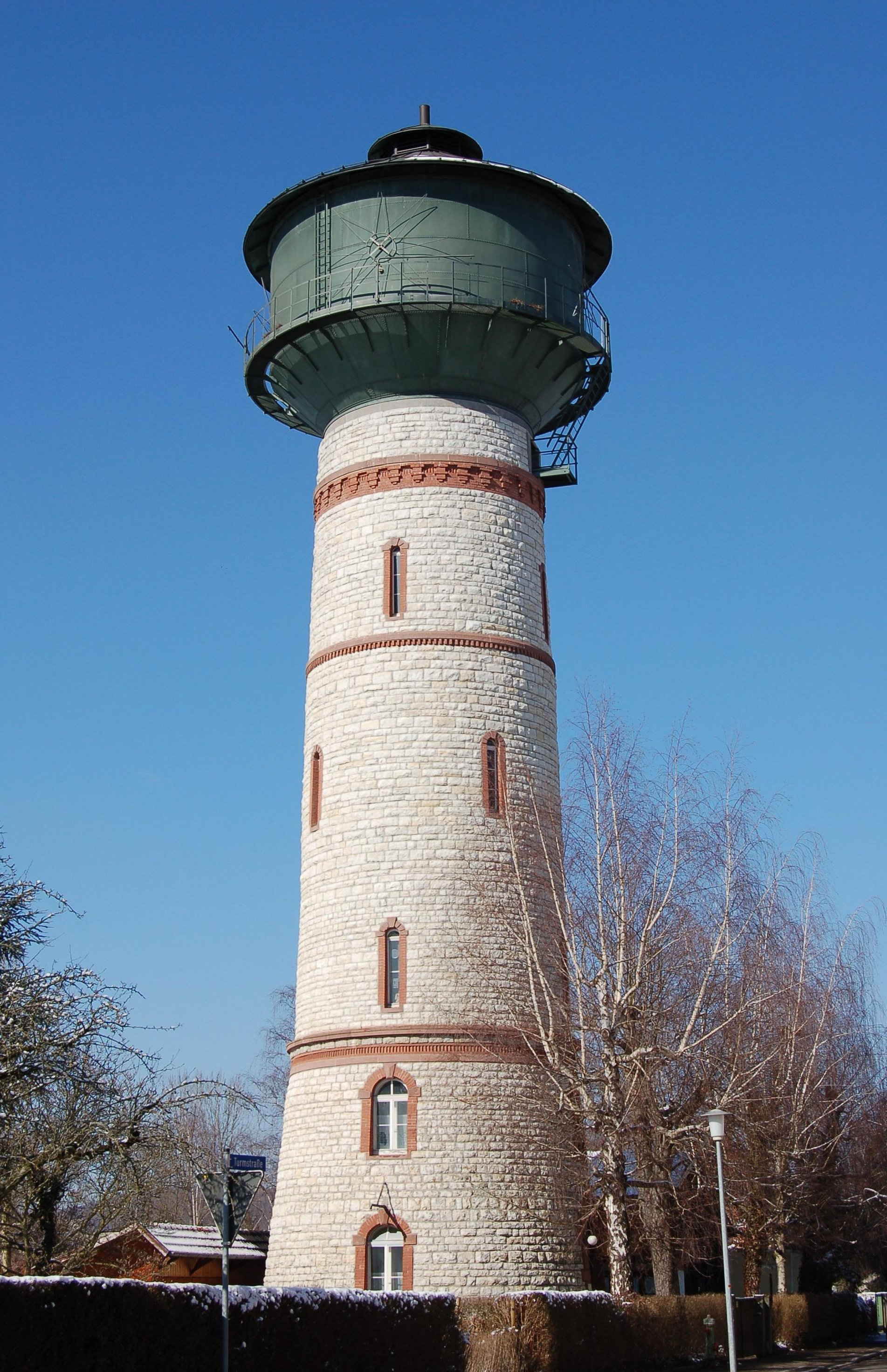 Water tower of Rheinfelden